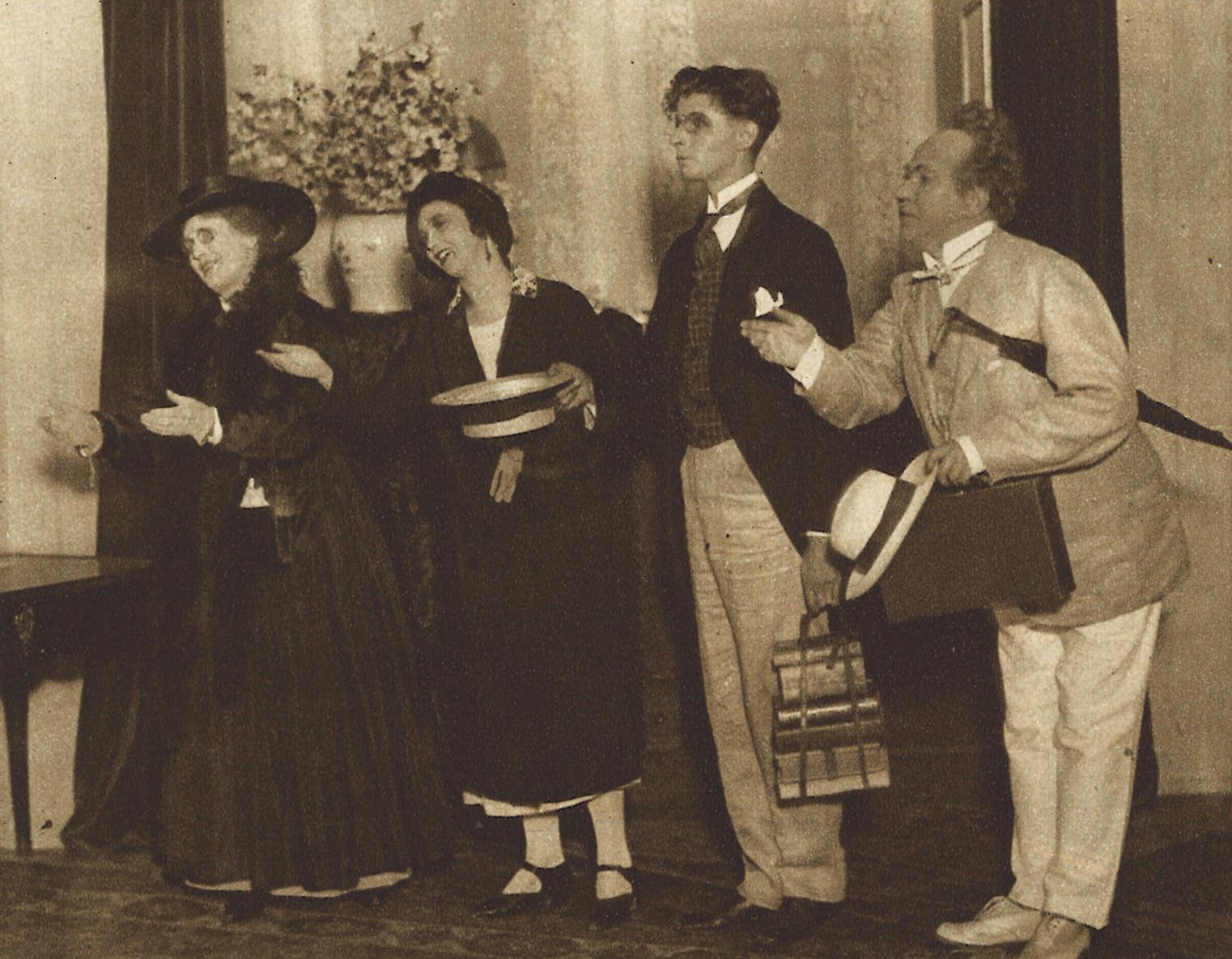 Swedish actors and actresses (from left) Constance Byström, Inga Tidblad, Ragnar Billberg och Artur Cederborgh in a performance of the play Alarmklockan at Vasateatern (1925).